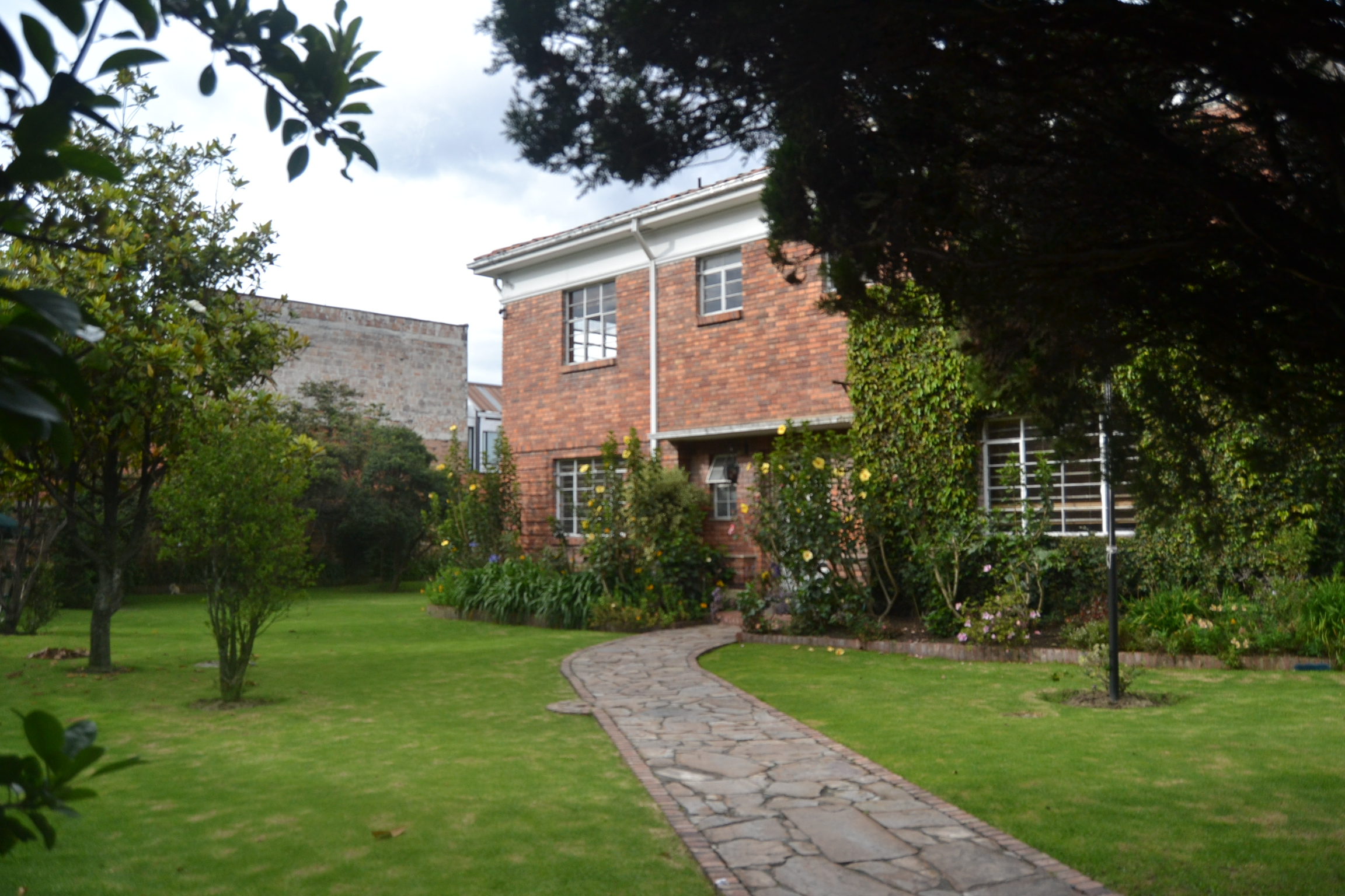 Instalaciones centro